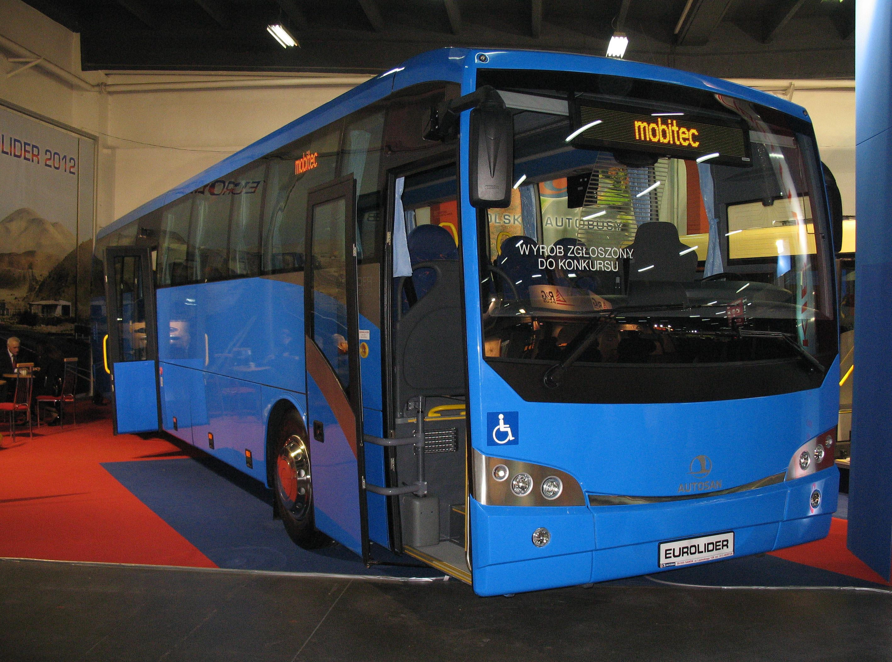 Autosan A1213C Eurolider bus in Kielce, Poland. Built 2008, Transexpo 2008.